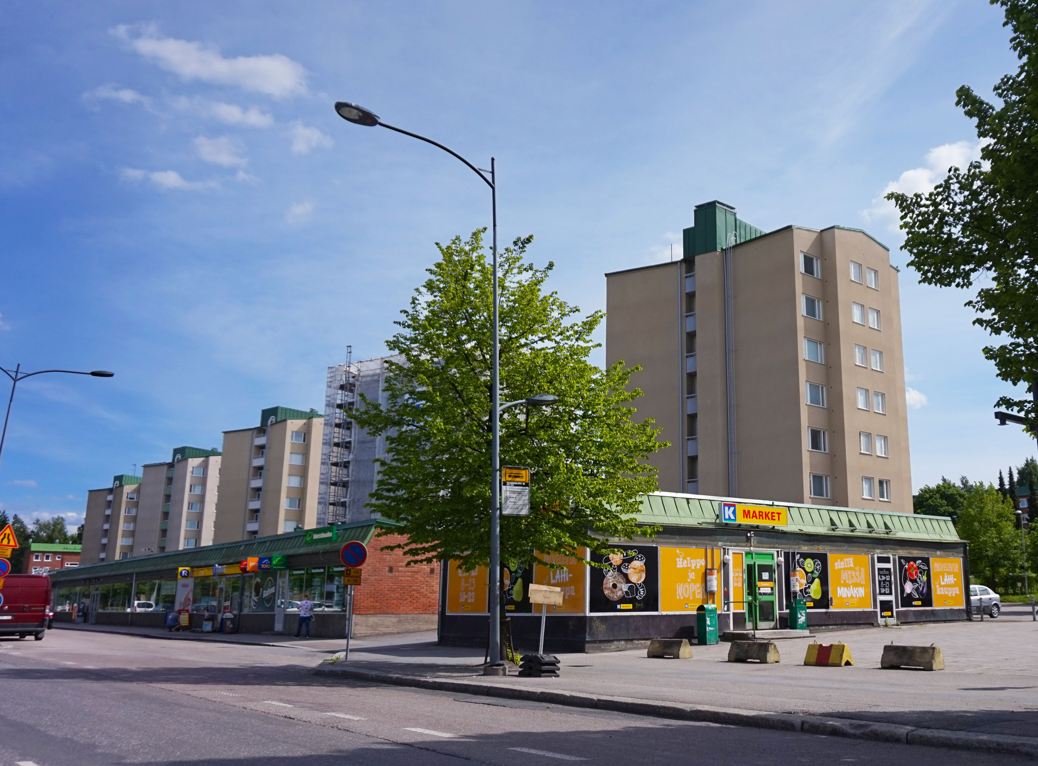 The district Kalevanrinne, Tampere. View on the street SammonkatuThis photograph was taken with a Sony ILCE-5000